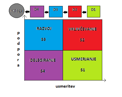 Stili vodenja in ravni zrelosti skupine.